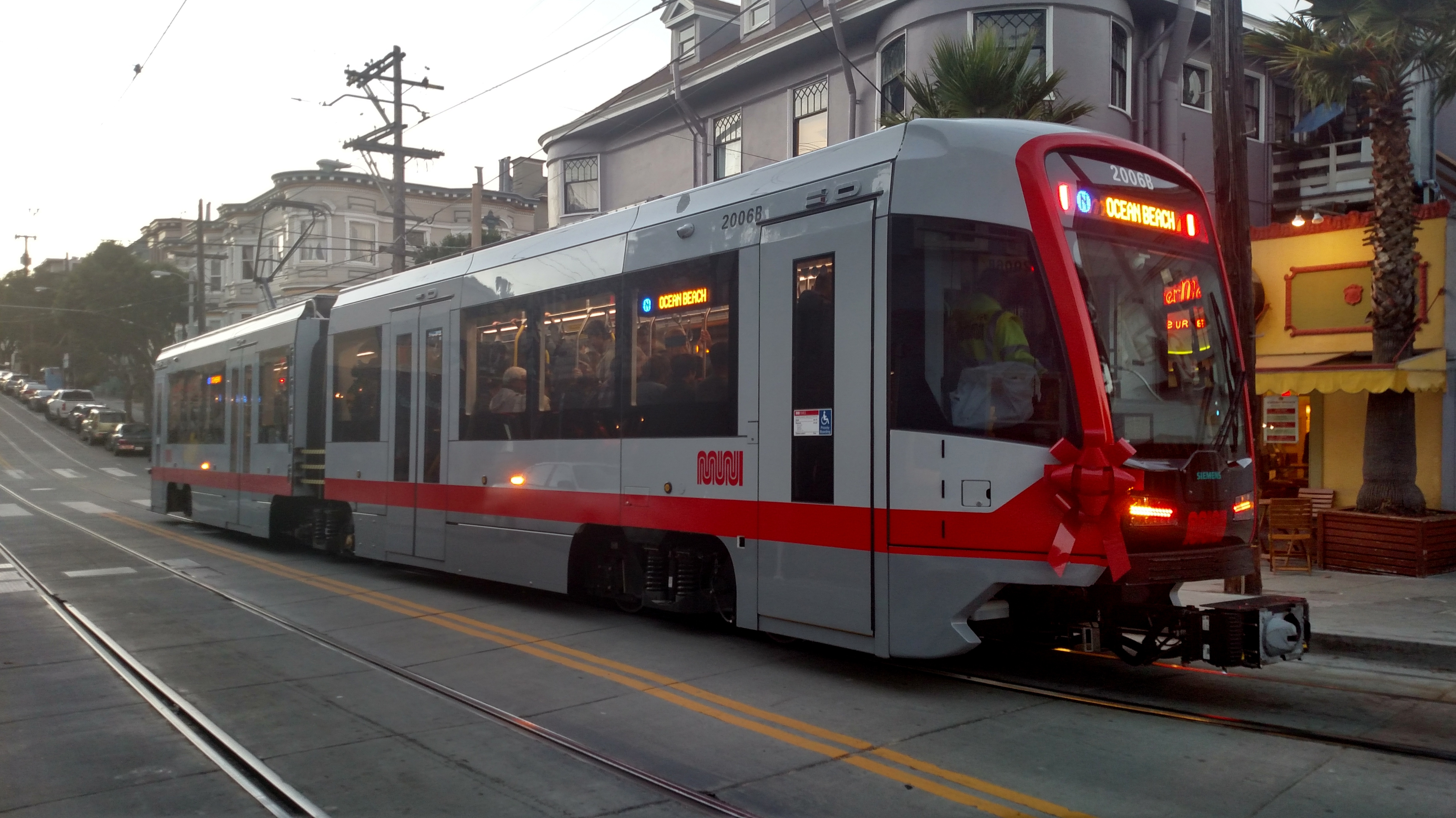 Muni 2006, the first Siemens S200 SF to enter revenue service, at Carl and Cole station on its first day of revenue service in November 2017